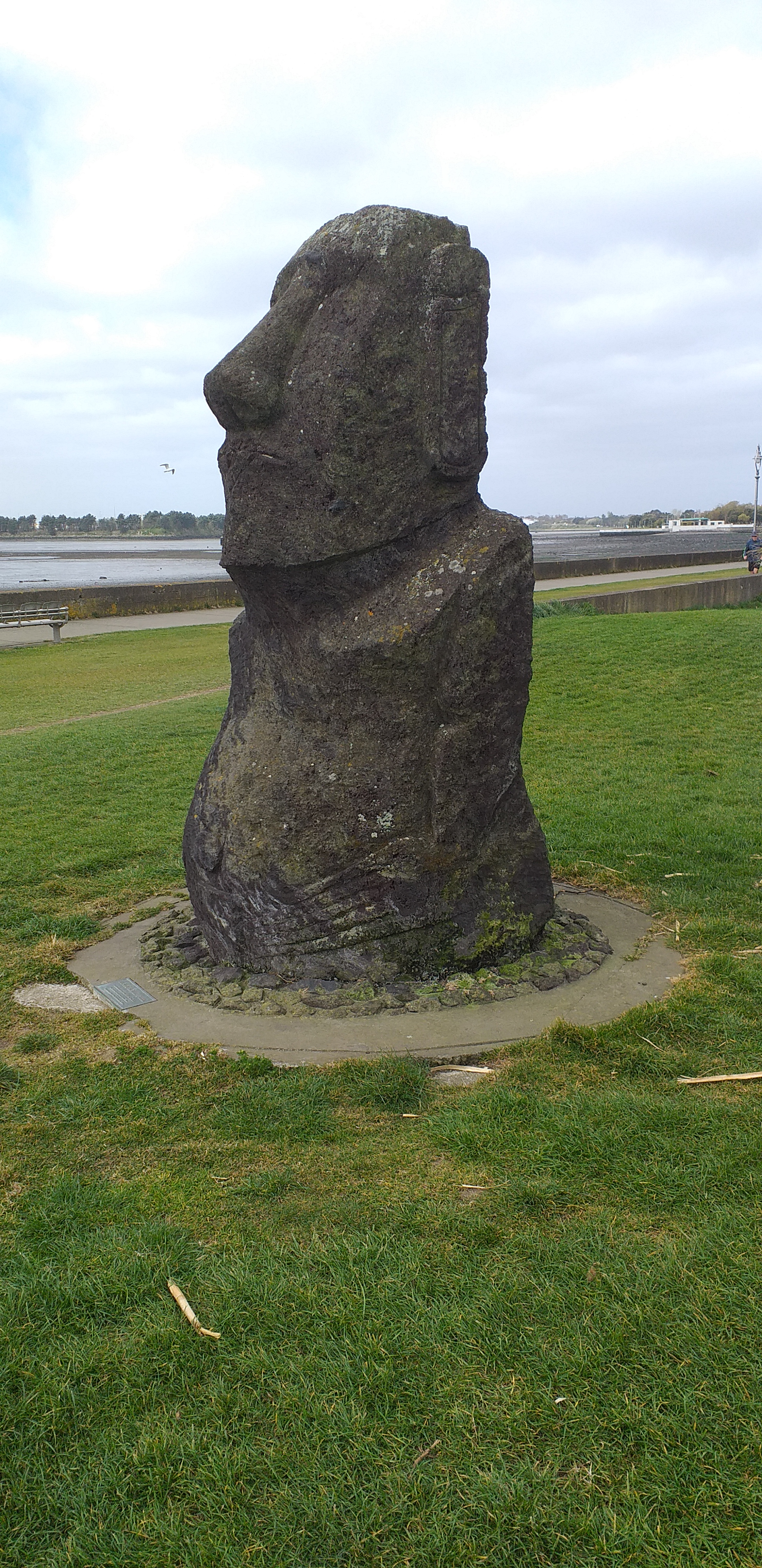 Maoi (Easter Island statue) sculpture on the promenade at Clontarf, near Vernon Avenue. Donated to the city of Dublin by the Government of Chile in 2004